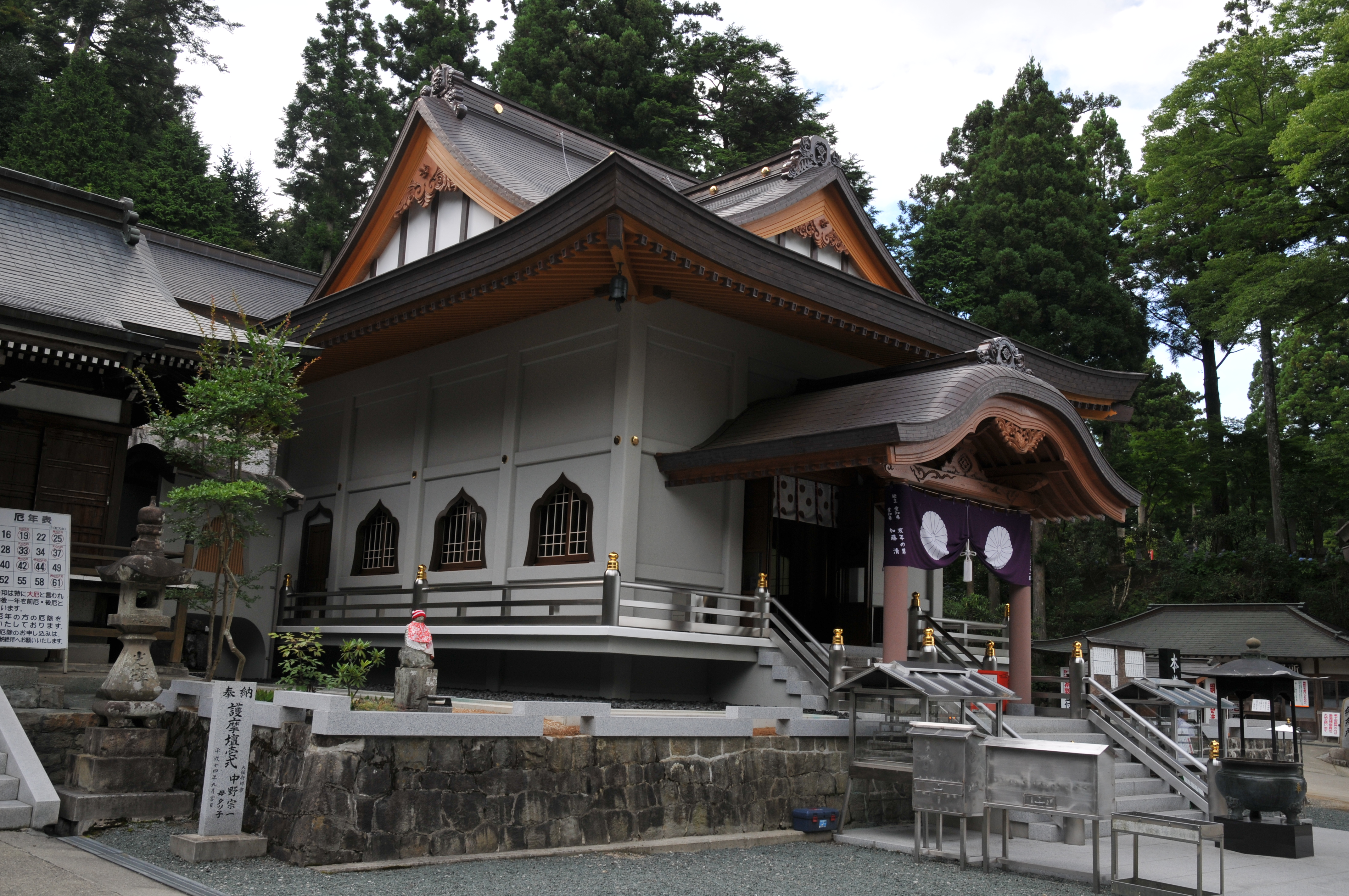 Main temple, Unpen-ji